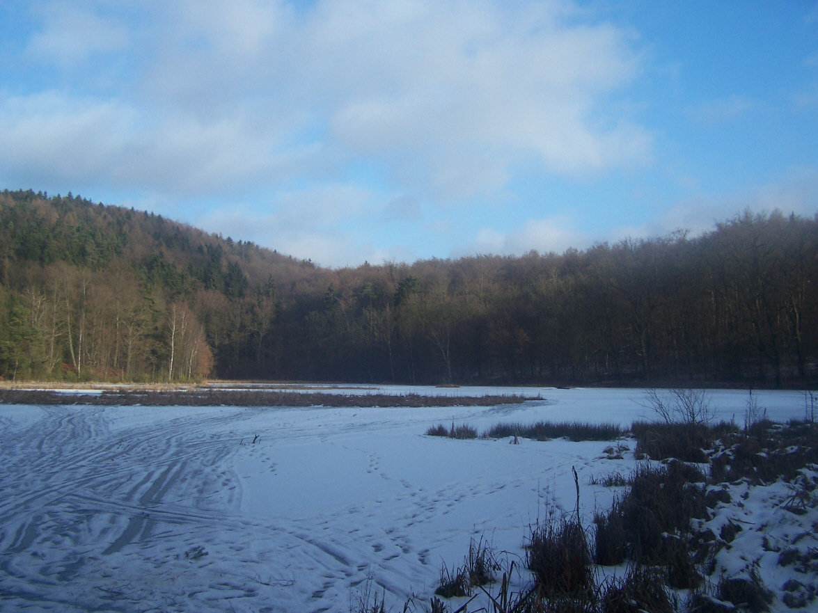 The lake Albertsee.